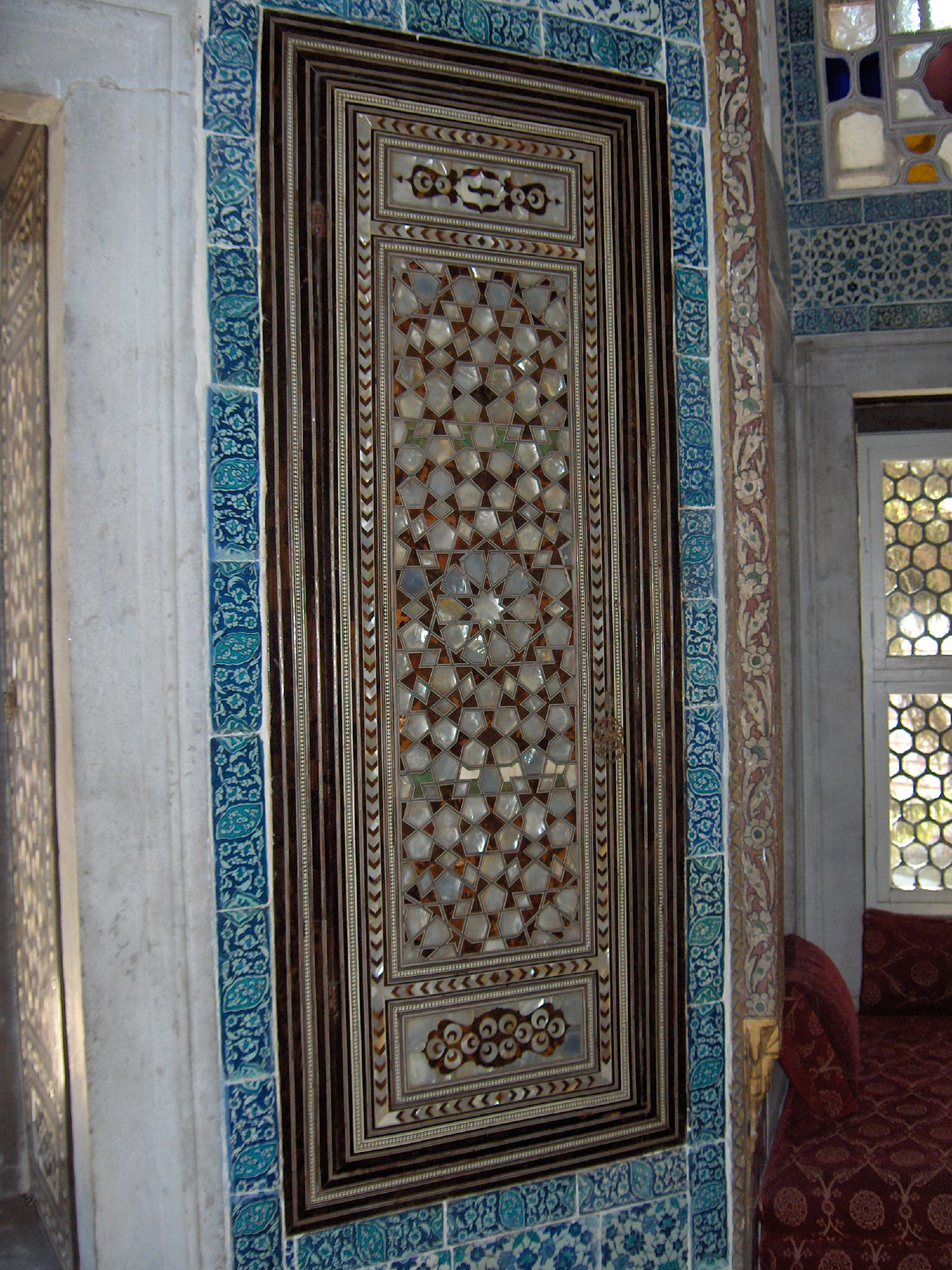 Inlay with nacre tesserae; Bagdad pavilion; the fourth court; Topkapı Palace, Istanbul, Turkey